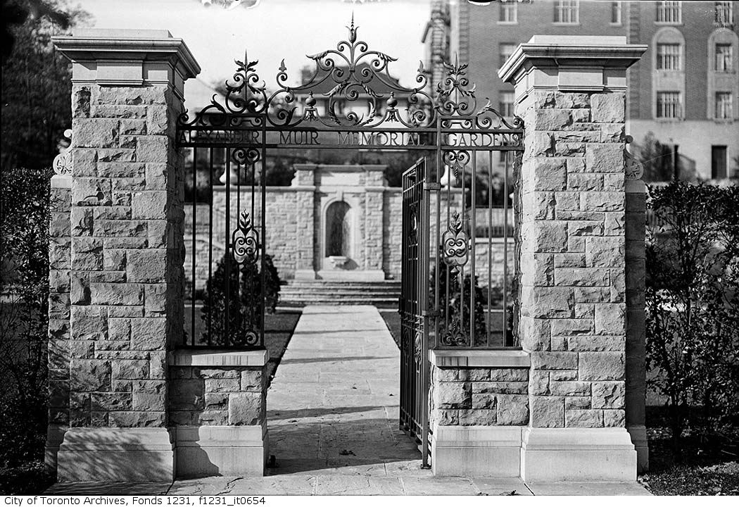 Gates and monument (background) at the old location of Alexander Muir Memorial Gardens opposite the Yonge Street entrance to Mount Pleasant Cemetery in Toronto.